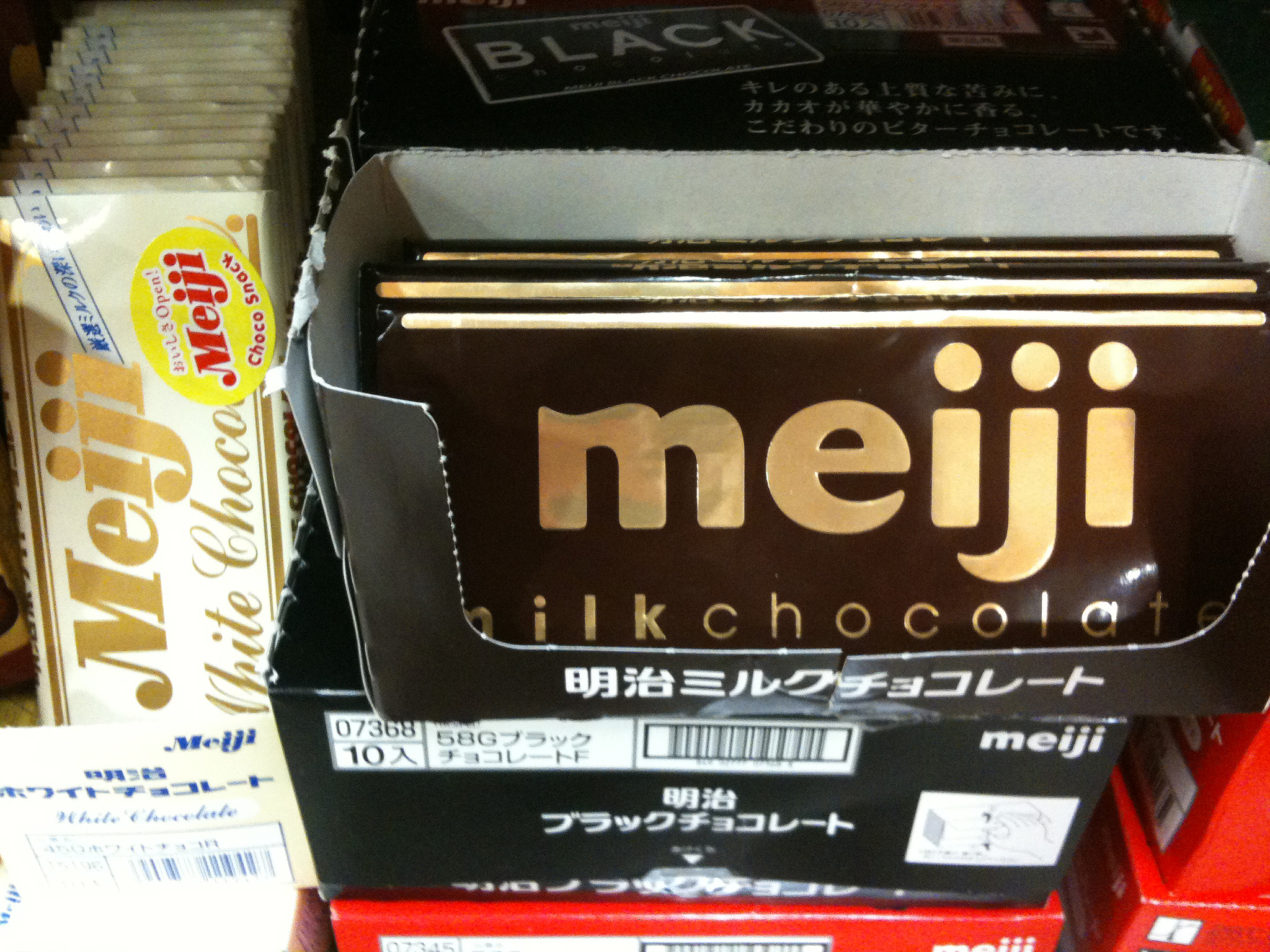 Meiji's milk chocolate with the new logo.